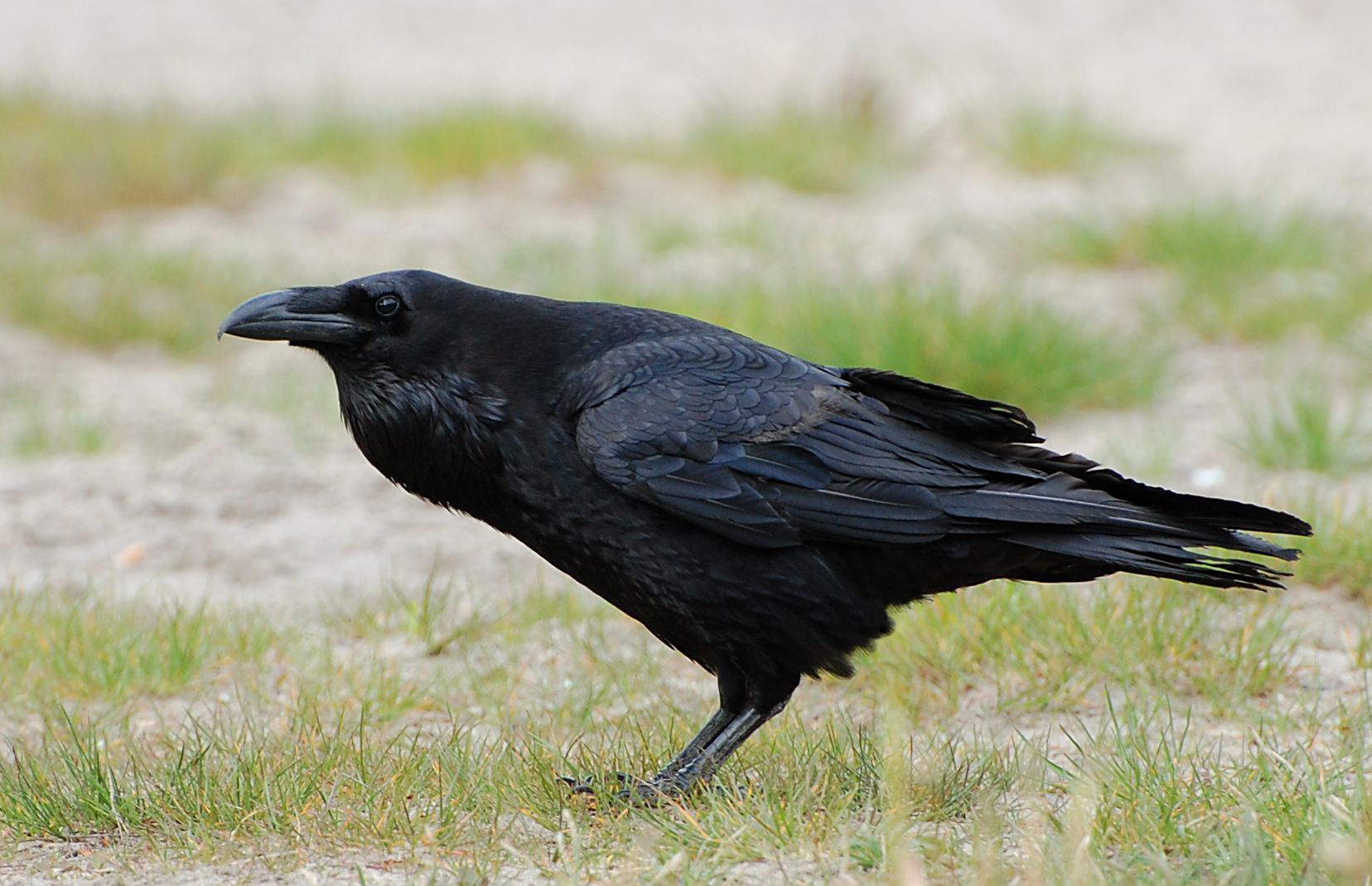 Common Raven (Corvus corax), adult, Berlin, Germany